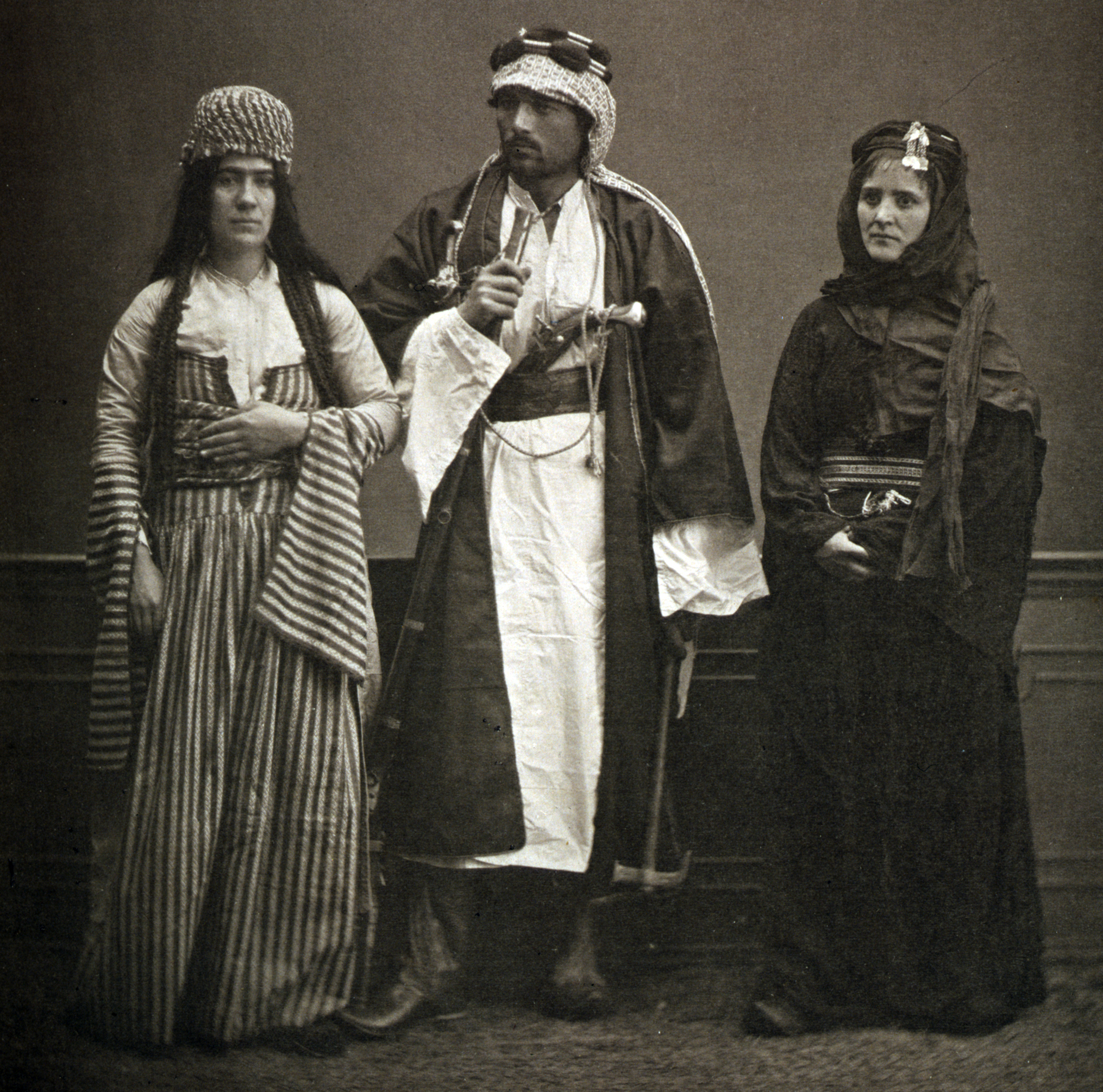 (1): Bedouin from the province of Halep (Aleppo); (2): Bedouin woman from the province of Halep (Aleppo); and (3): married Jewish woman from Halep (Aleppo). Les Costumes Populaires De La Turquie, en 1873.A collection of photographs by the famous photographer Pascal Sebah on the occasion of the universal exposition in Viena in 1873. The album represents the costumes of the different regions, and ethnic and religious groups of the Ottoman Empire.